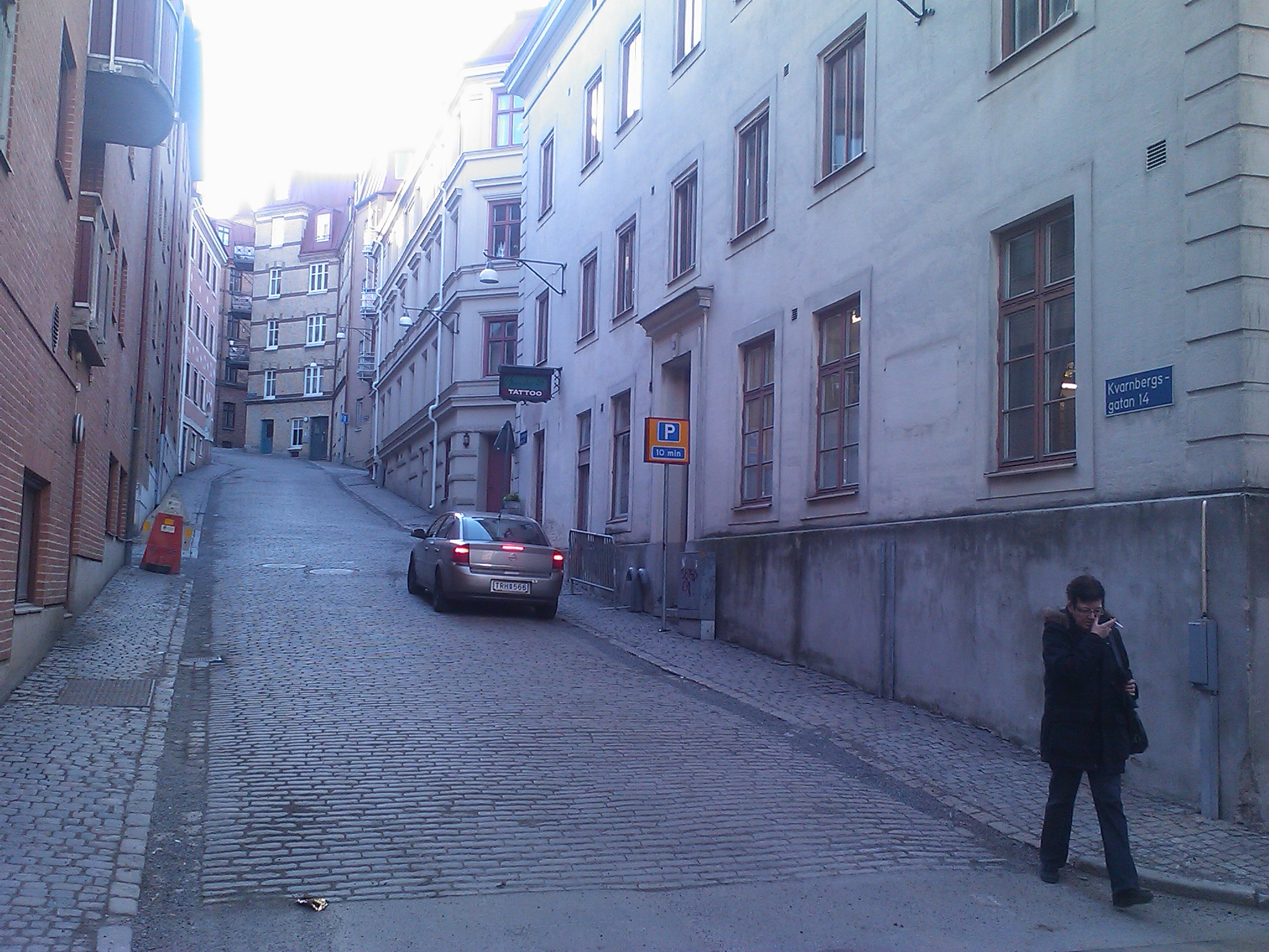 Kvarnbergsgatan, Gothenburg, Sweden